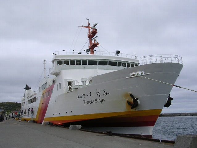 ボレアース宗谷 (東日本海フェリー, 北海道利尻島鴛泊港で撮影) BoreasSoya (Higashi Nihonkai Ferry, a photograph from the Oshidomari port, Rishiri-island, Hokkaido, JAPAN) IMO Number: 9278832